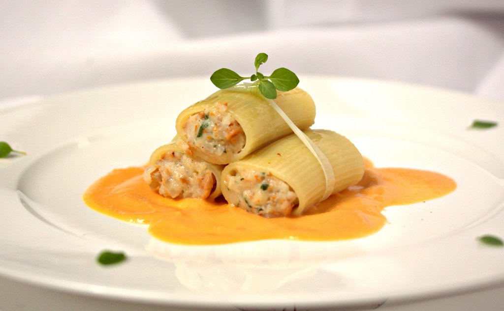 Paccheri di Gragnano - Italy.